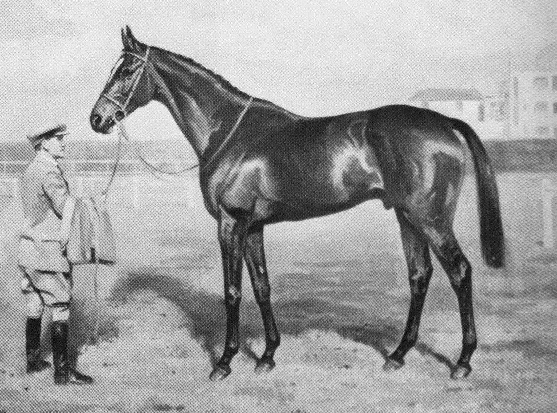 Bahram (1932-1956) was an Irish-bred Thoroughbred racehorse who went undefeated in his racing career and won the 1935 U.K. Triple Crown.